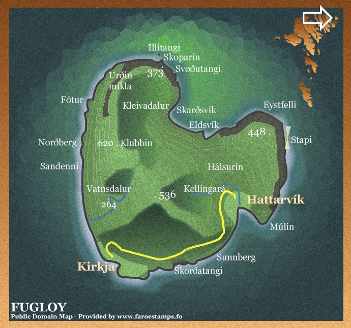 Fugloy, Faroe Islands